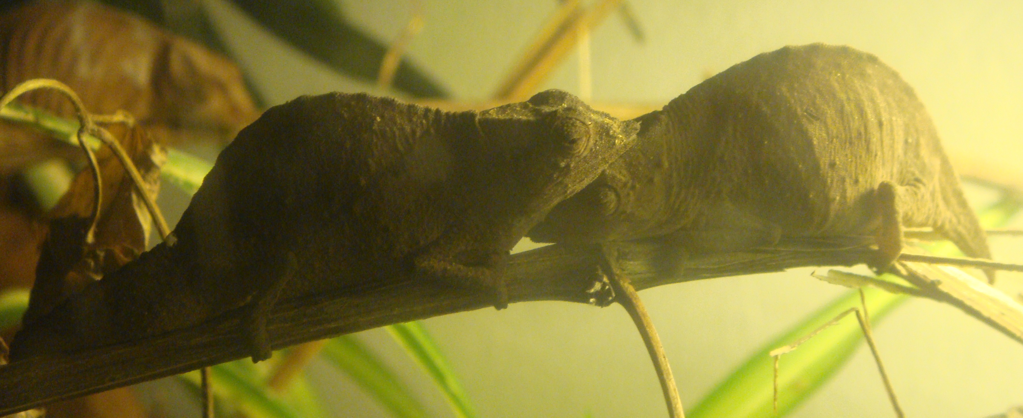 Rhampholeon temporalis, a couple, chameleons. Sleeping together.